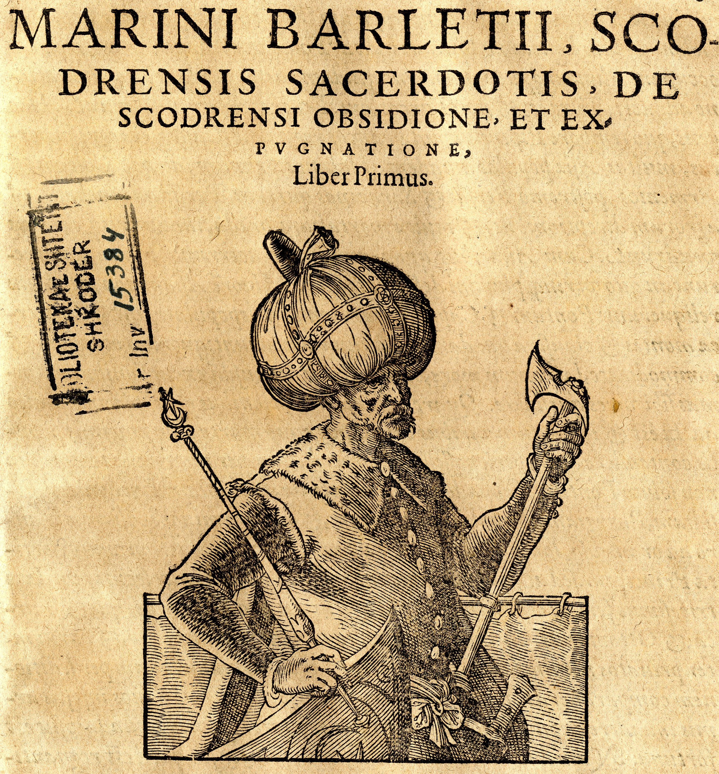 Scan from 1578 Latin version of The Siege of Shkodra, showing the Turkish sultan prior to "Book One"